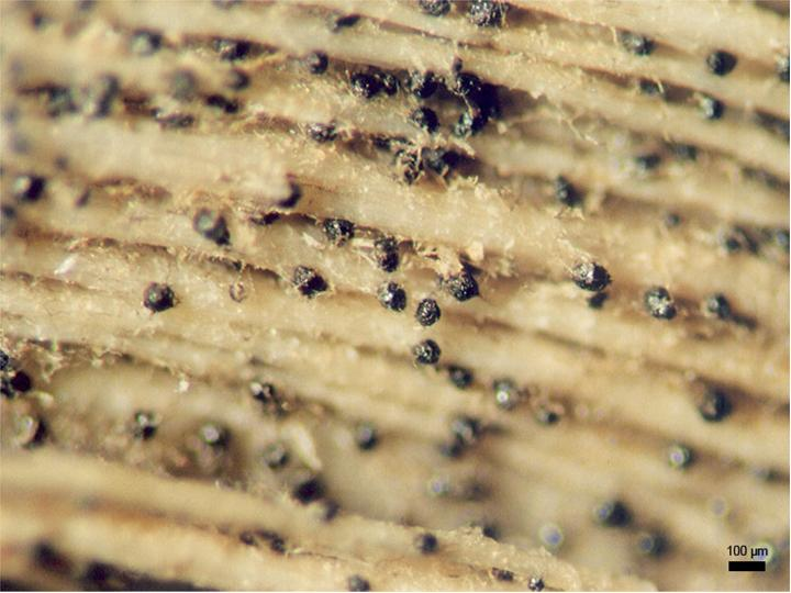 Pycnidia and Sclerotia of Macrophomina phaseolina on Mungbean